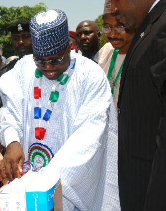 "Governor of Borno State Ali Modu Sheriff opening American Corner Maiduguri" A crop of larger picture at